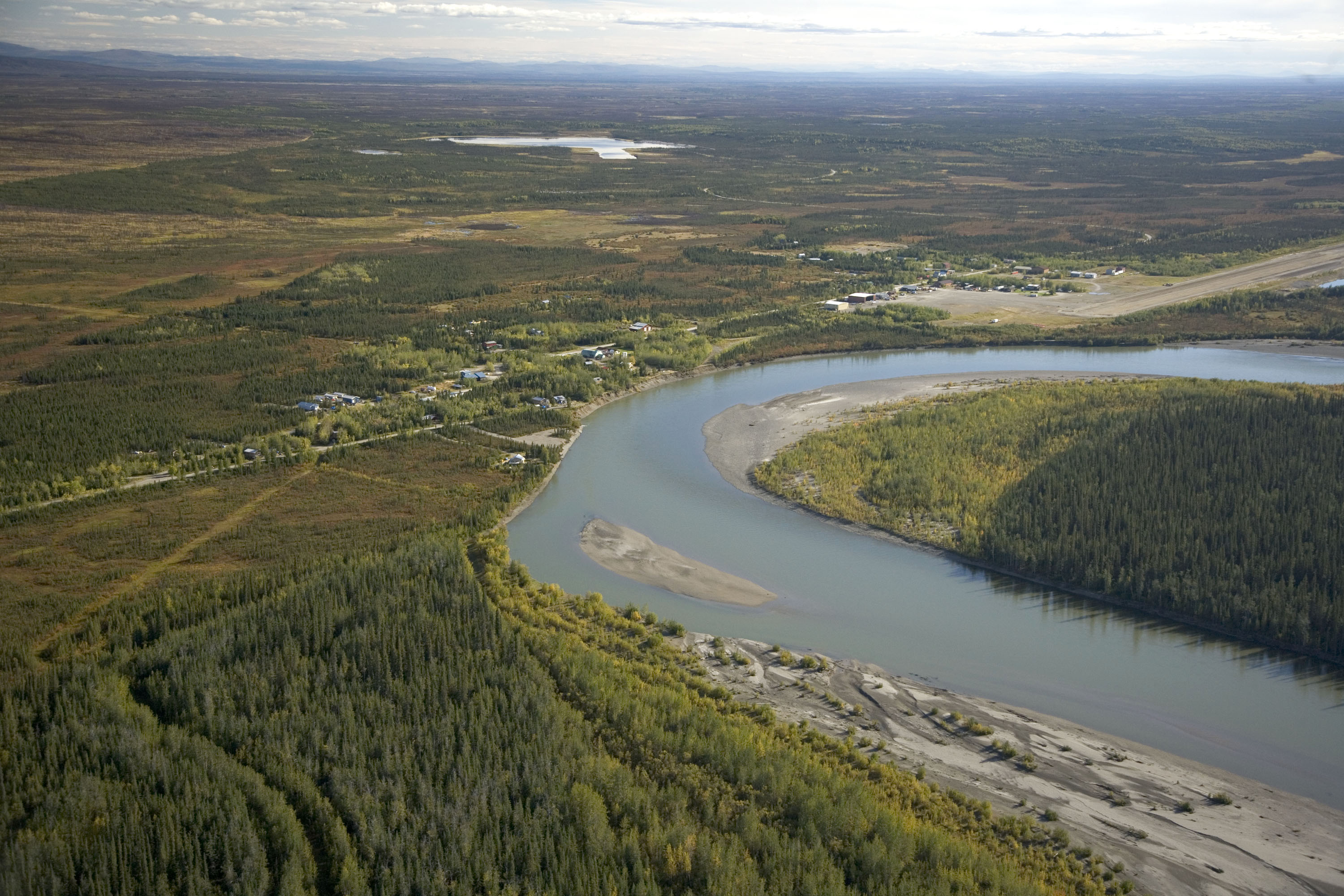 Aerial view of Bettles (right) and Evansville (left), in the U.S. state of Alaska. The river in the foreground is the Koyukuk River.